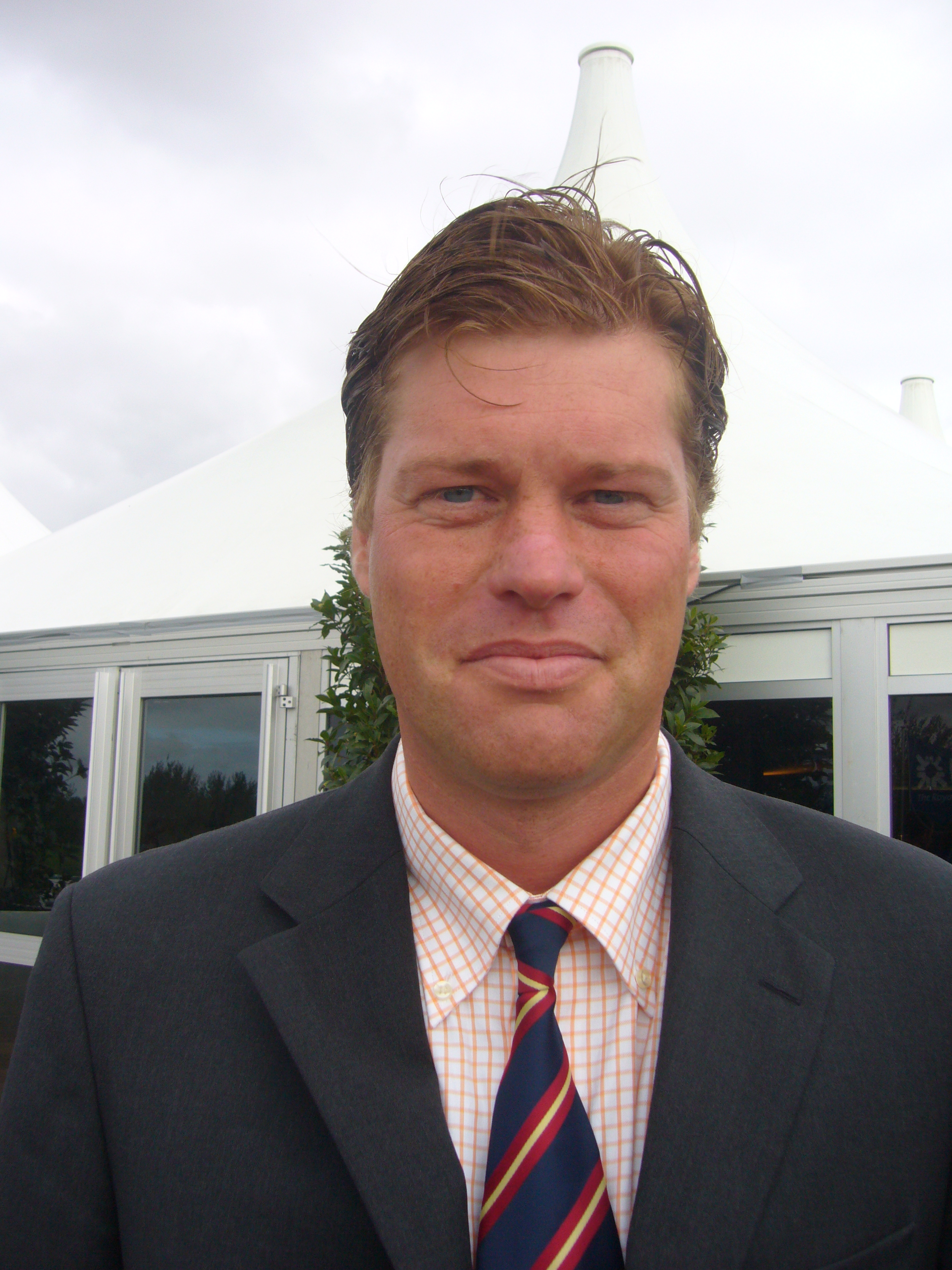 Niels Boysen, tournament directoer of the Dutch Challenge Open 2009 at Golfclub Houtrak